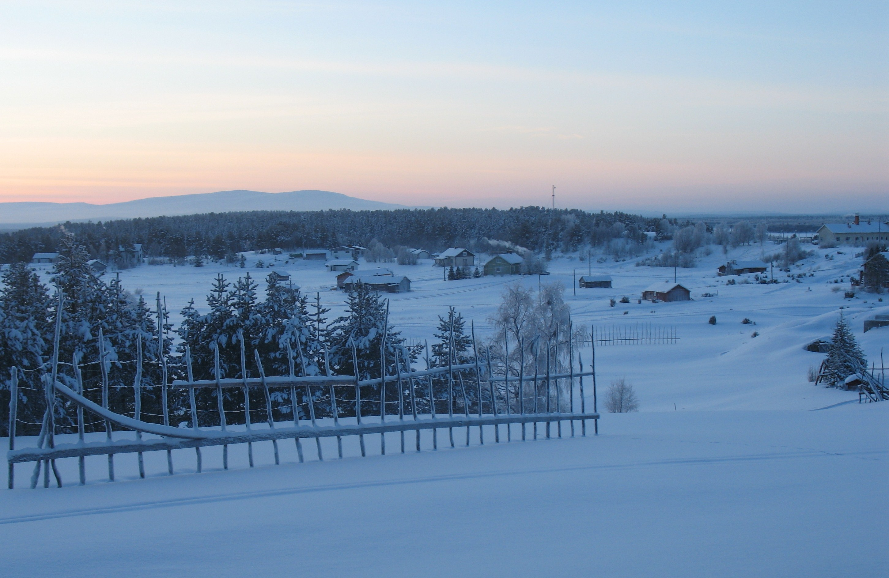 Vuontisjärvi village in Enontekiö, Finland